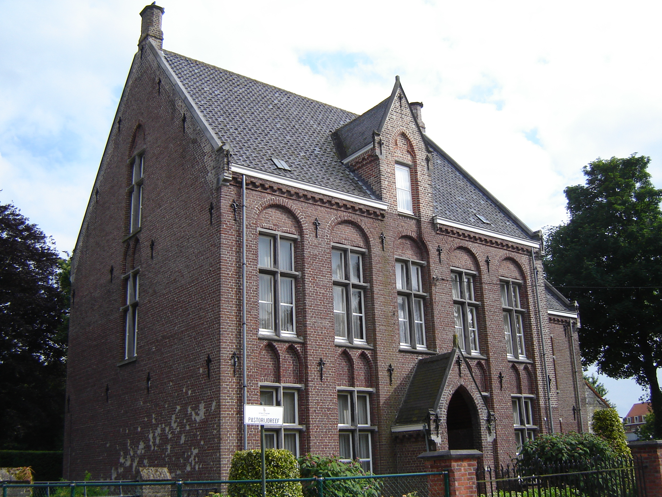 Rectory in Sint-Denijs-Westrem. Sint-Denijs-Westrem, Gent, East Flanders, Belgium